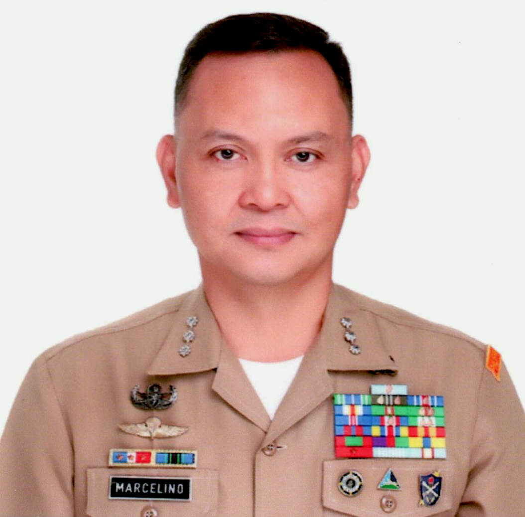 Colonel in his Marines uniform